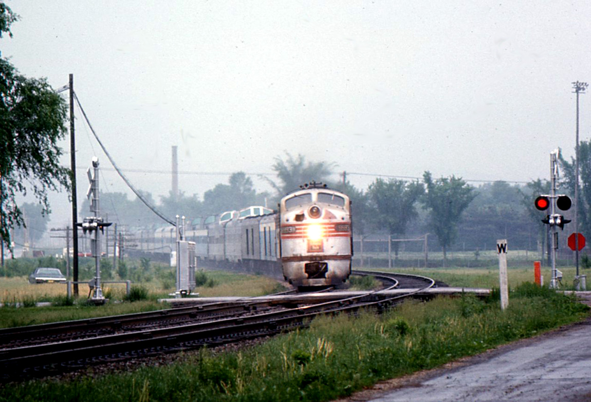 The Twin Cities Zephyr, approaching Prairie du Chien, Wisconsin station in 1970. This is the train set introduced in 1947, with at least four Vista-Dome cars and a separate diesel locomotive. It ran from Chicago to Minneapolis-St. Paul. The Twin Cities Zephyr was taken out of service when Amtrak took over most railroad passenger operations in 1971.